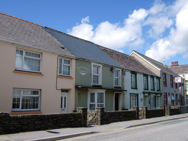 Auckland Terrace Crymych Probably some of the earlier housing from the development of the village following the arrival of the railway. The green house appears still to have its original windows.